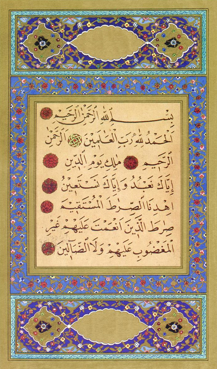 The first Sura Al-Fātiha from a Qur'an manuscript by Hattat Aziz Efendi.